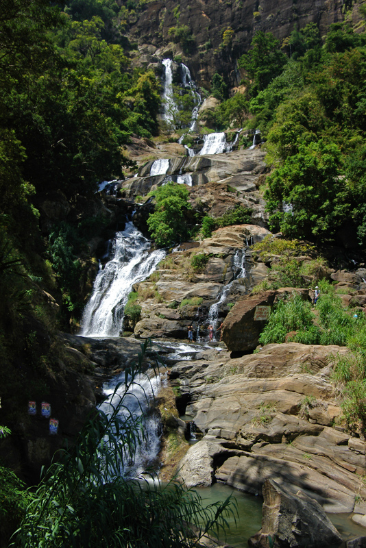 Waterfall on the road up to Nuwara Eliya, Sri Lanka